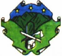 Coat of arms of Puerto Rico